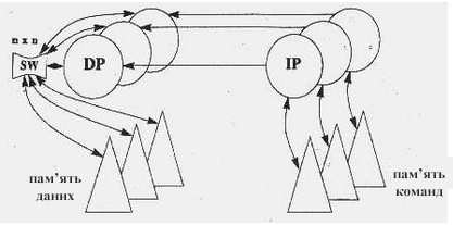 архітектура333